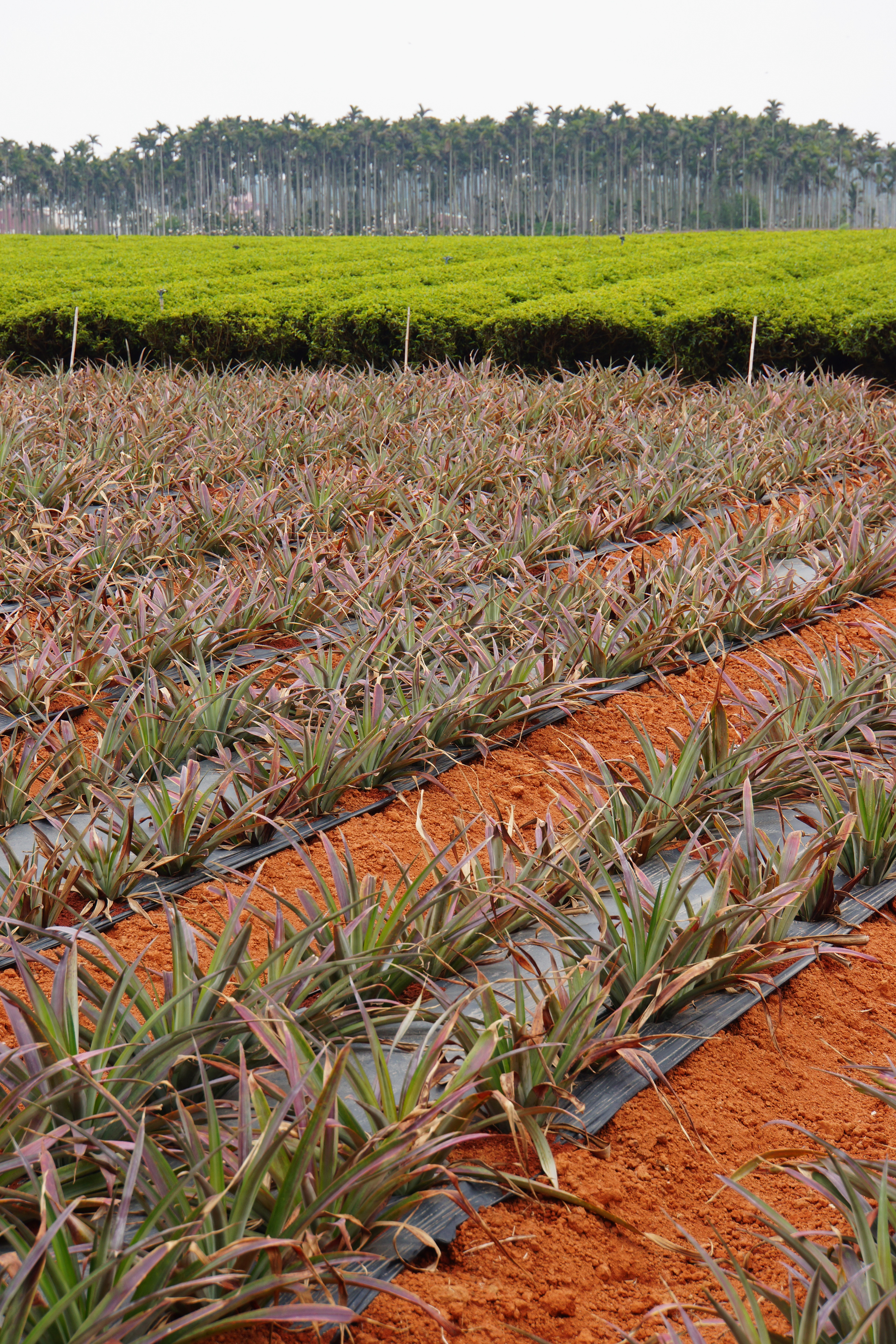 鳳梨田 Pineapple Field